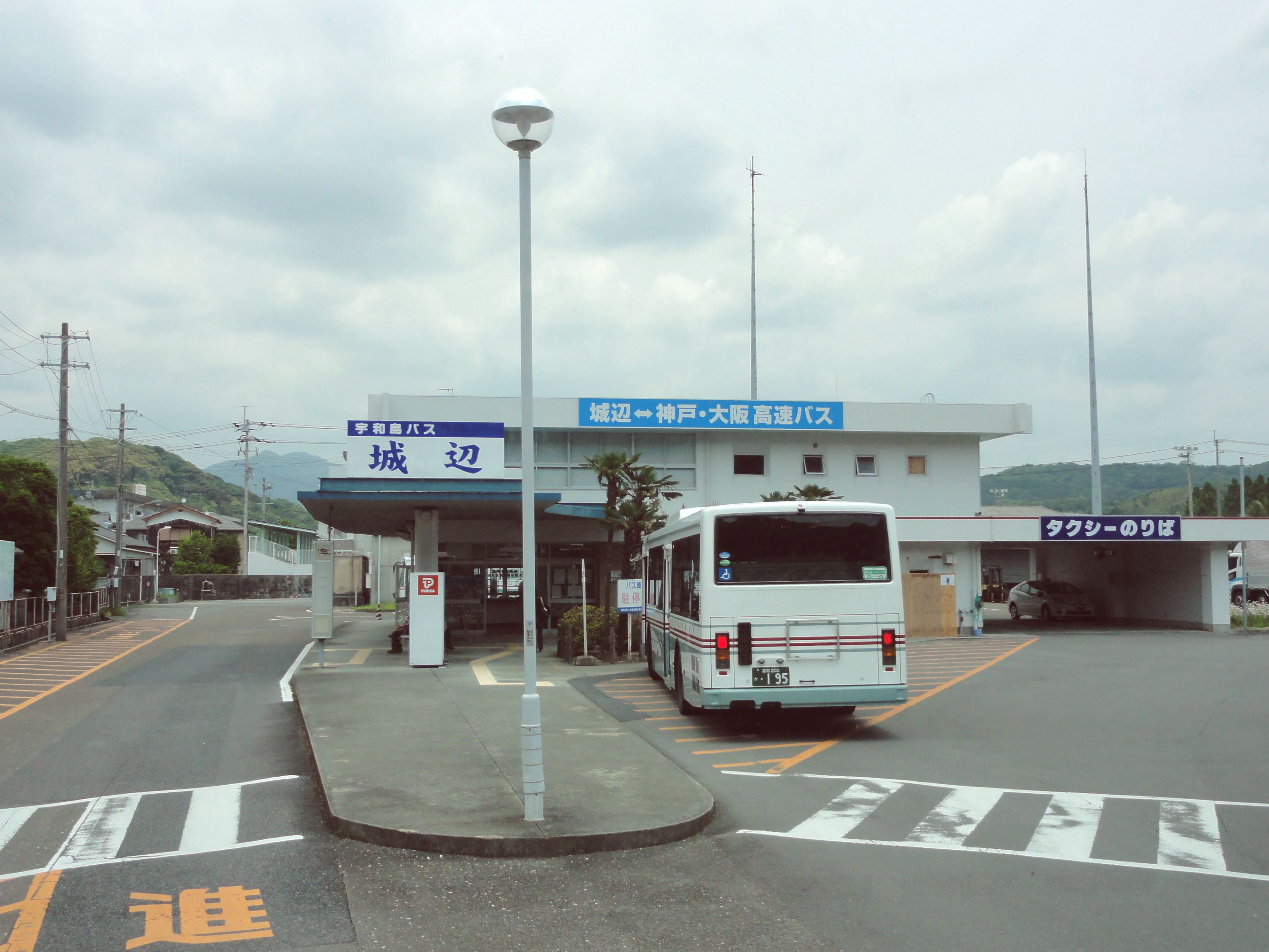 Uwajima Bus Johen Depot